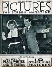 Pictures, August 1922, Pearl White on the cover of the English movie magazine Pictures for the American film Know Your Men (1921).